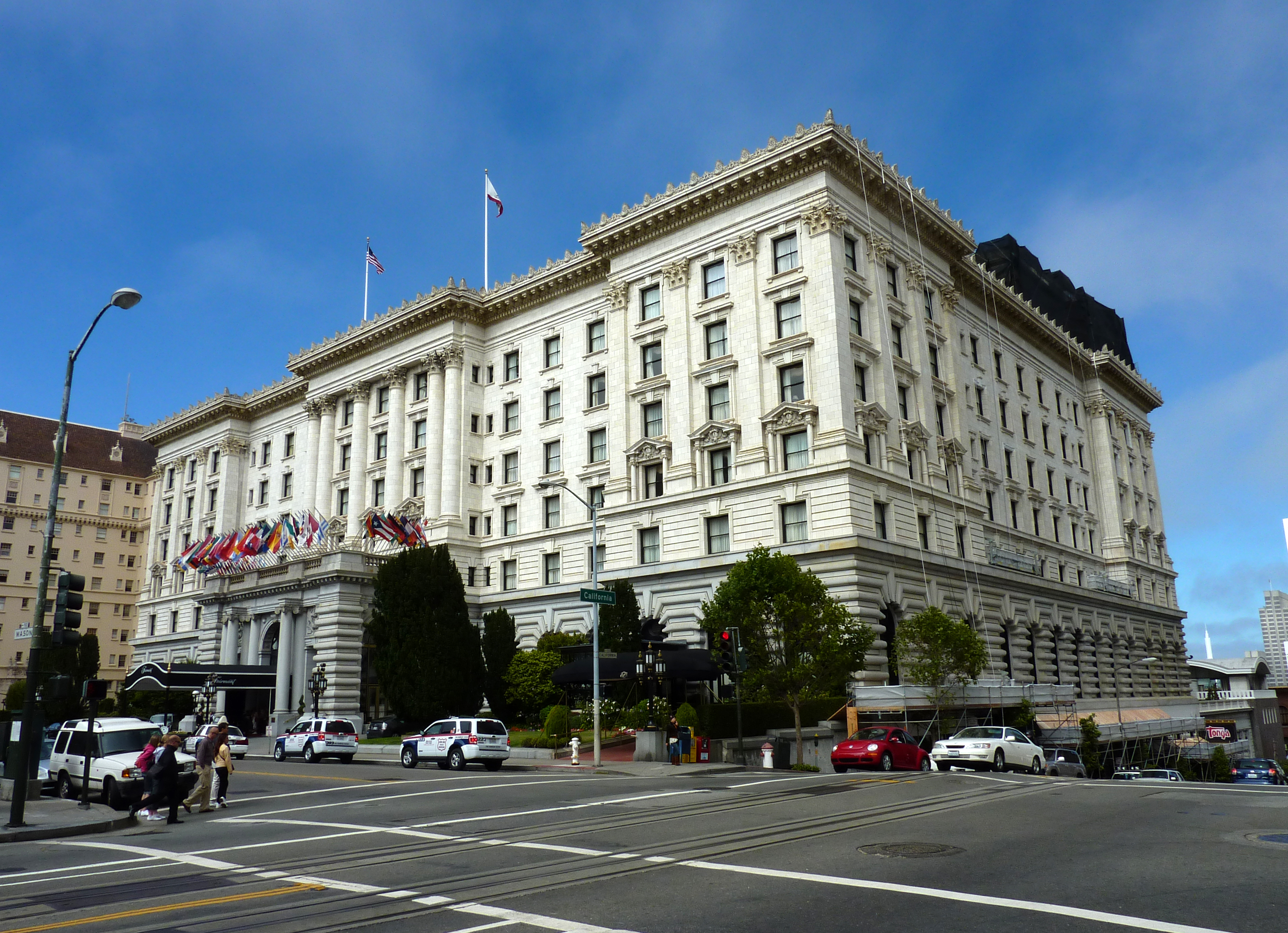 The Fairmont San Francisco, California, USA.